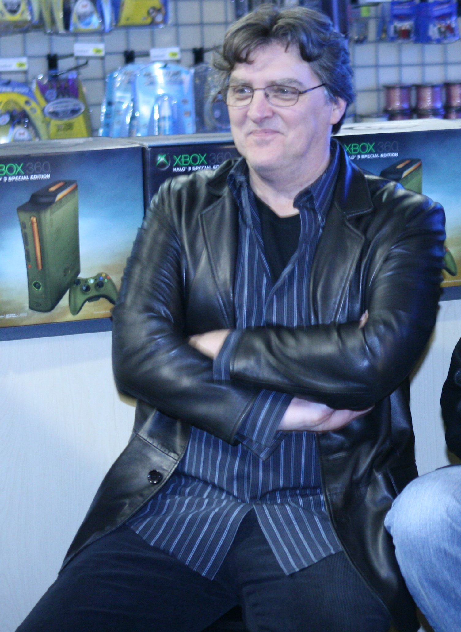 An image cropped so that it just shows Martin O'Donnell